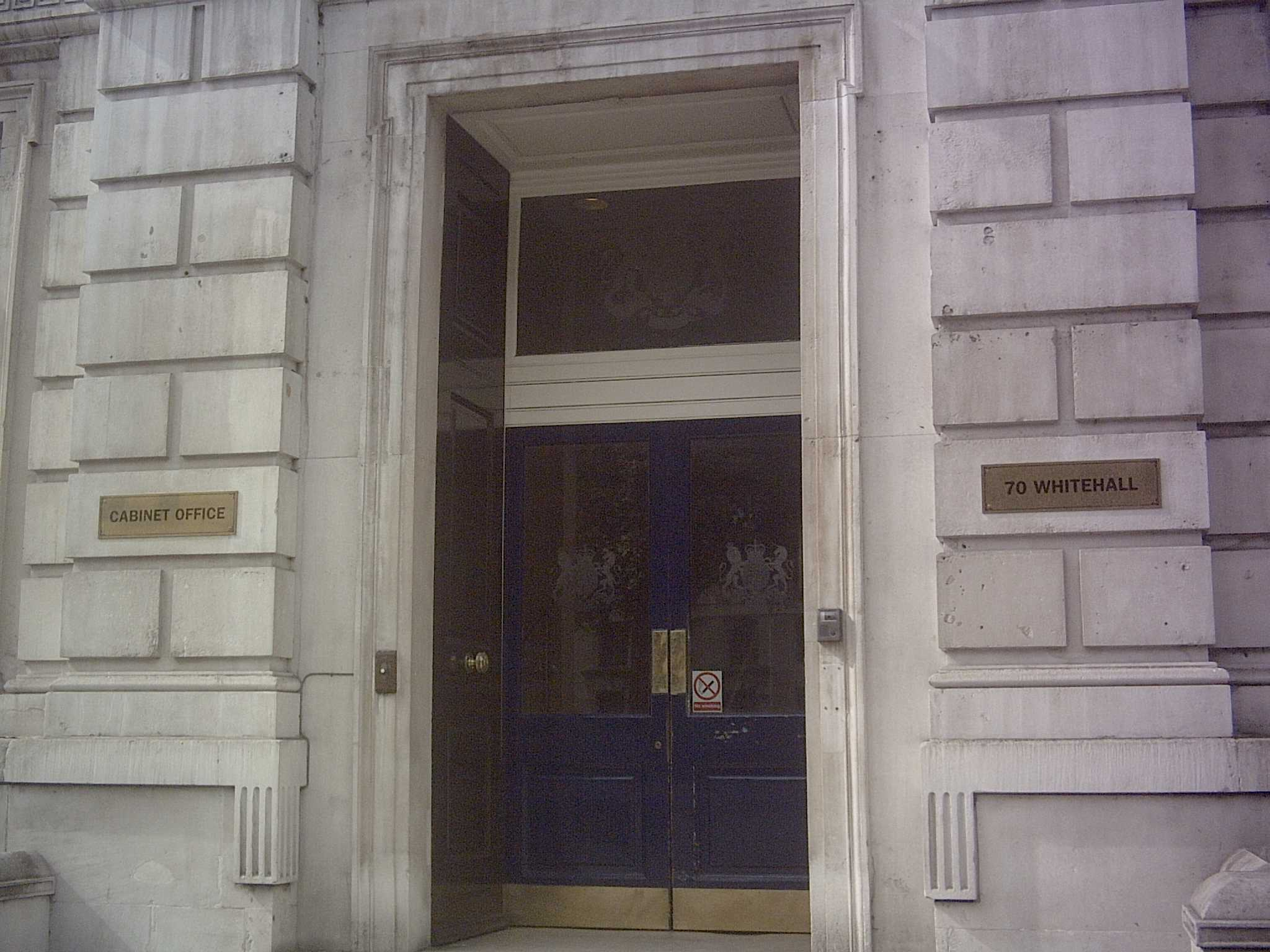 Cabinet Office, 70 Whitehall, London (next to Downing Street)